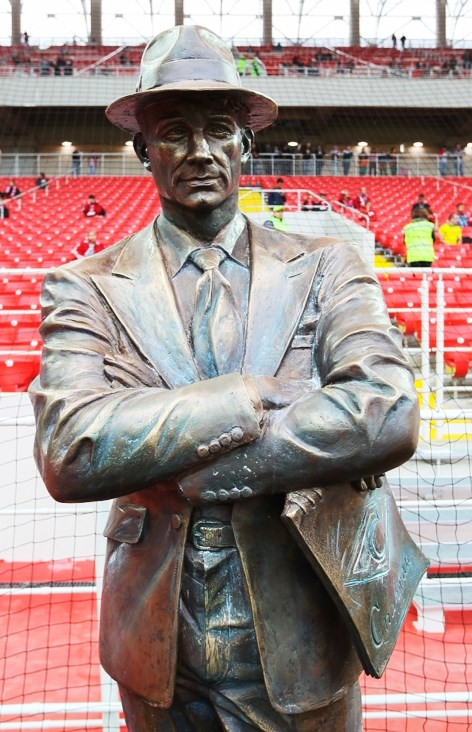 Otkrytie Arena